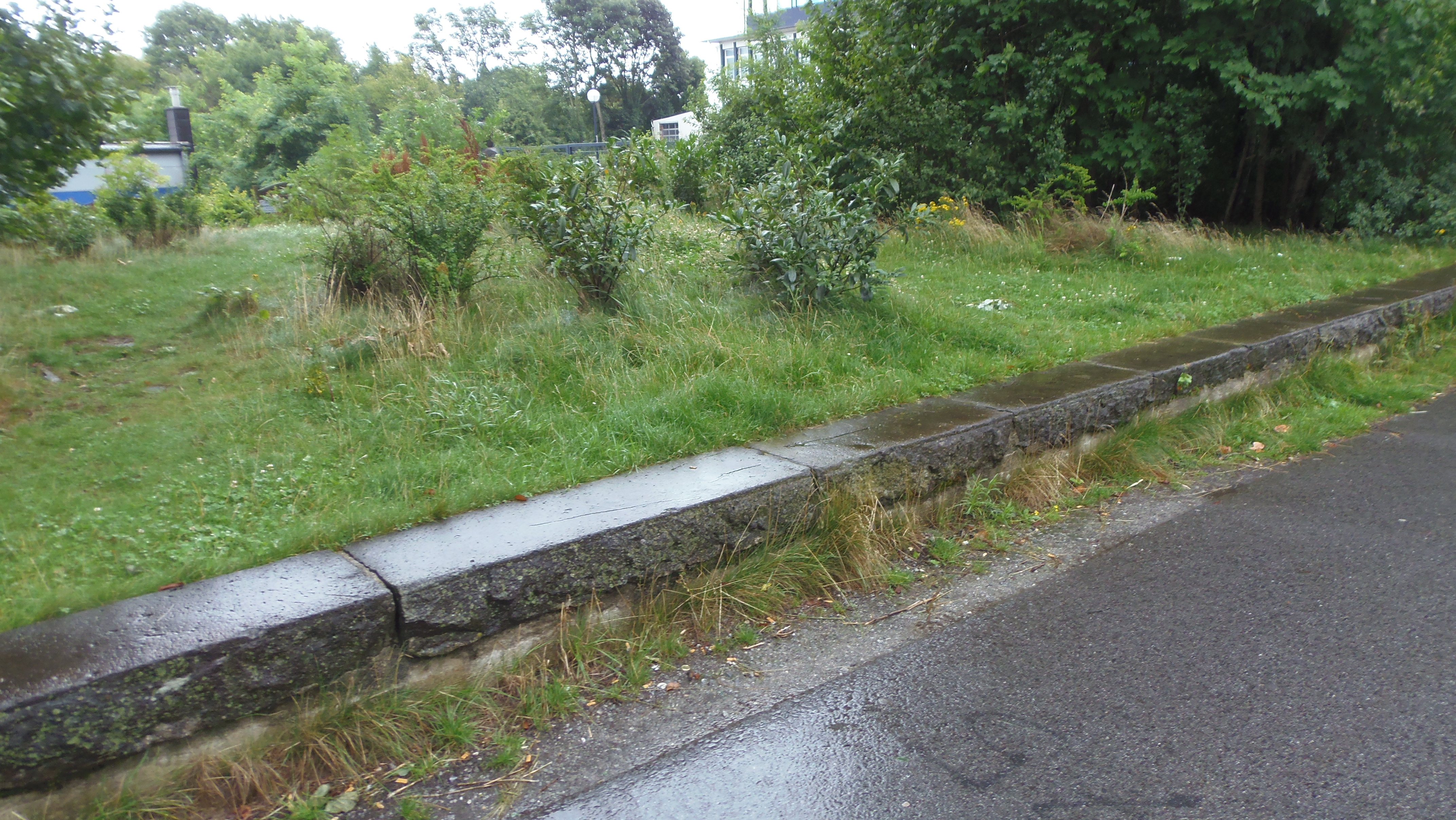 Former platform of Velbert central station